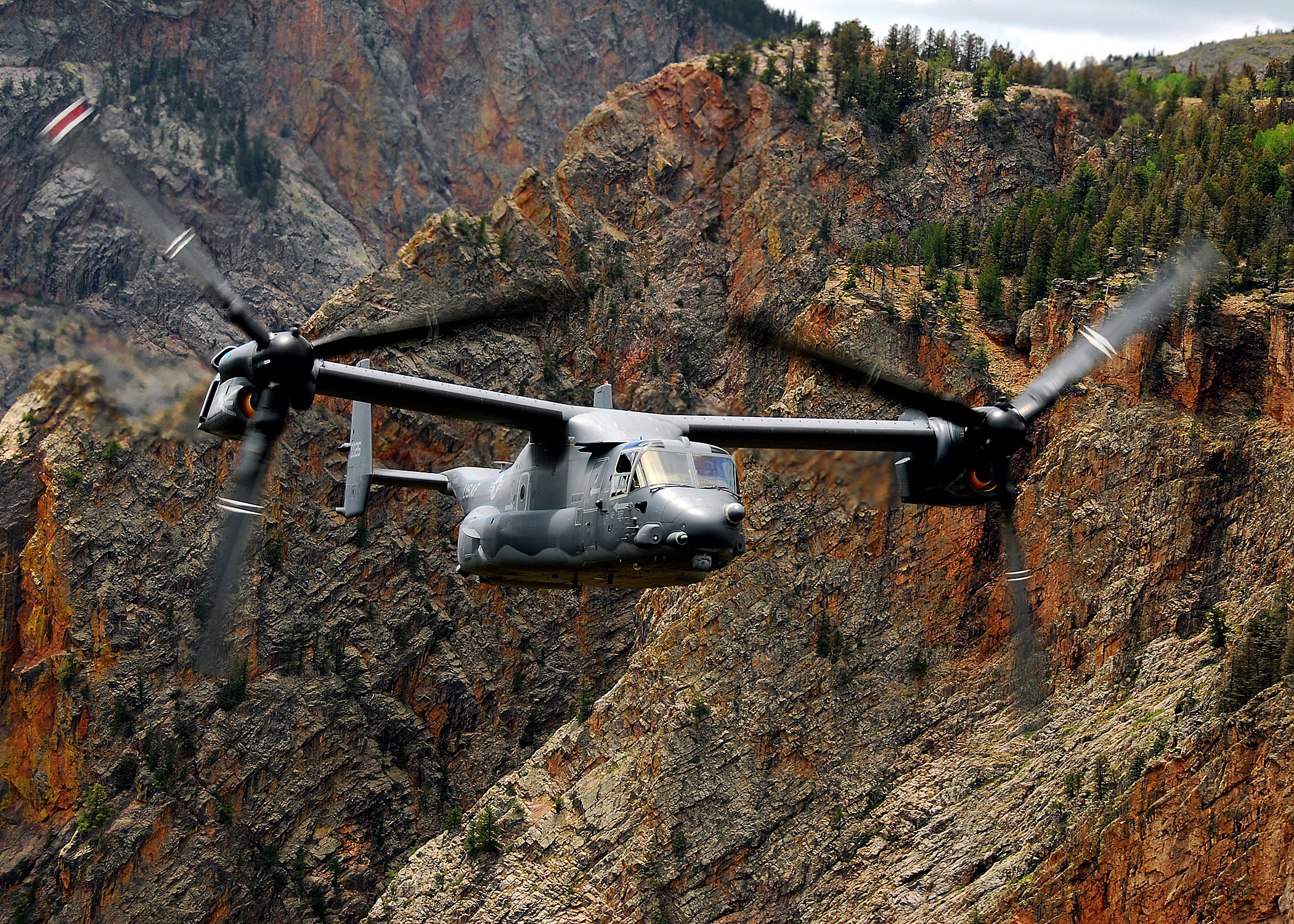 A television news crew from Albuquerque takes a ride on a CV-22 Osprey Aug. 7 and finds themselves in the midst of aerial scenery that is breathtaking, as is the angle of flight during part of the ride. (U.S. Air Force photo/Staff Sgt. Markus Maier)